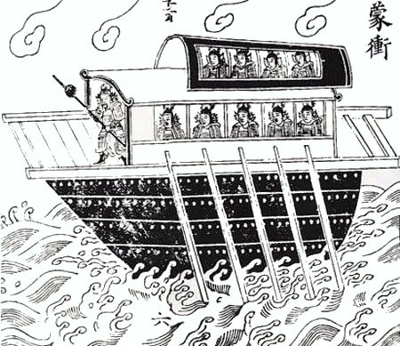 Title: 蒙衝 (蒙冲)mengchong doujian (蒙冲斗舰) mongolian leather-covered assault warship.